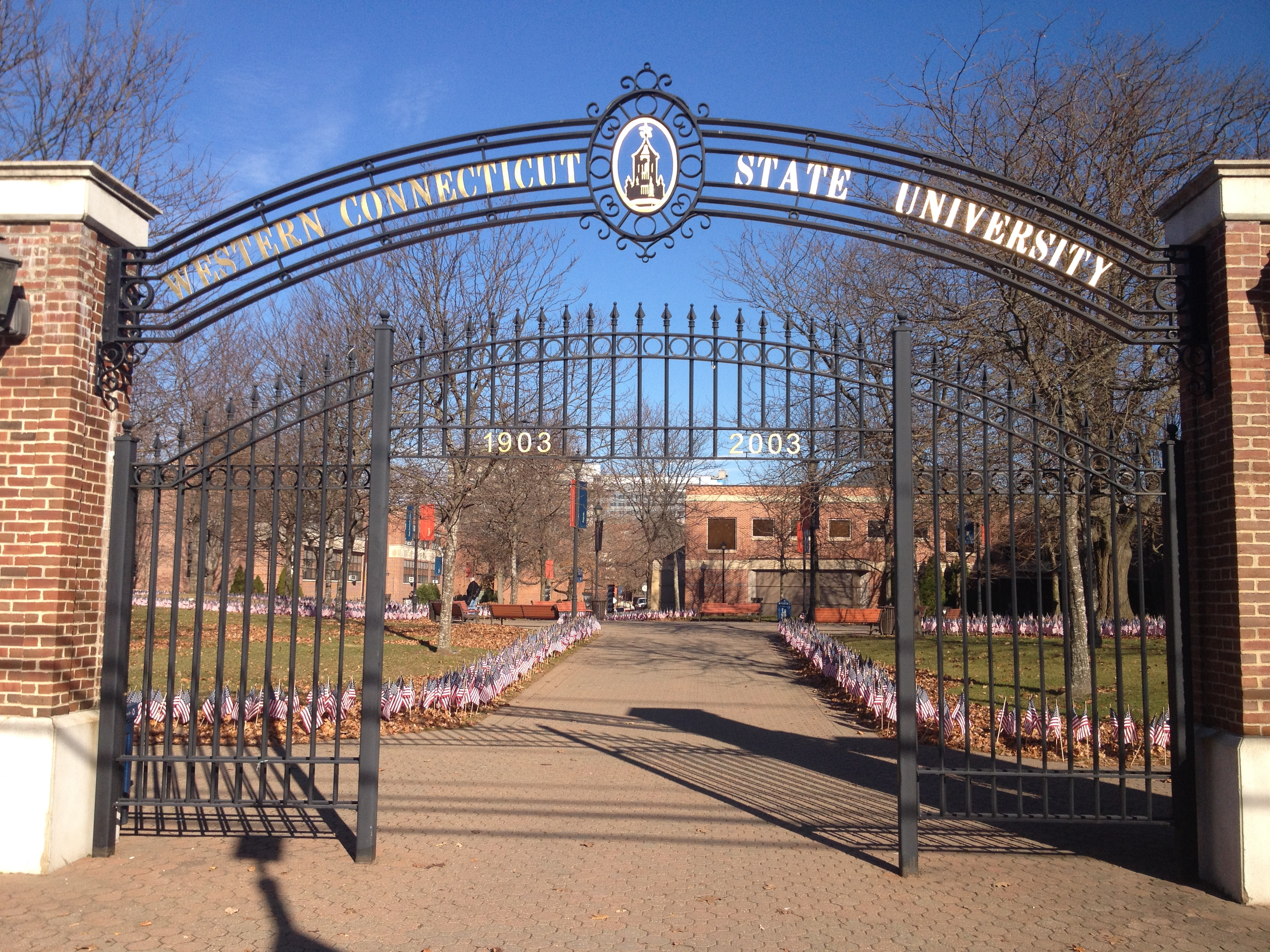 These are the gates located on the WCSU Mid Town campus.